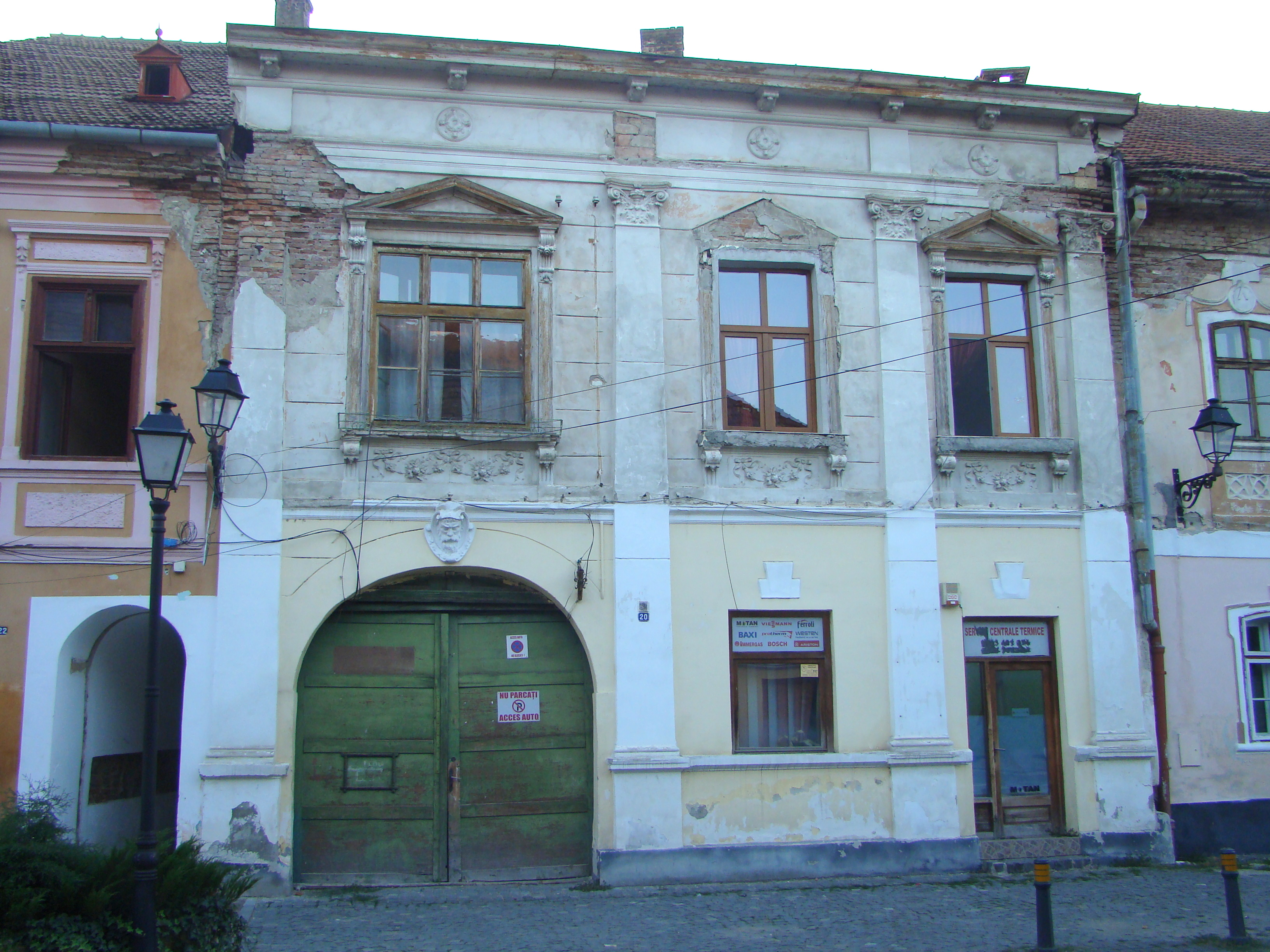 House, historic monument, in Bistrița, Nicolae Titulescu street 20